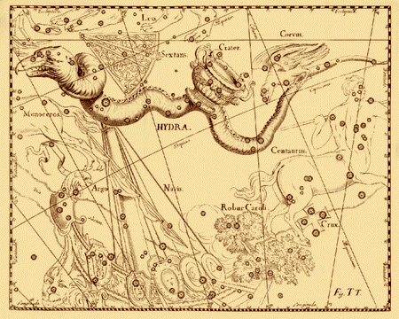 The Hydra (constellation) constellation from Uranographia by Johannes Hevelius. The view is mirrored following the tradition of celestial globes, showing the celestial sphere in a view from "ouside"